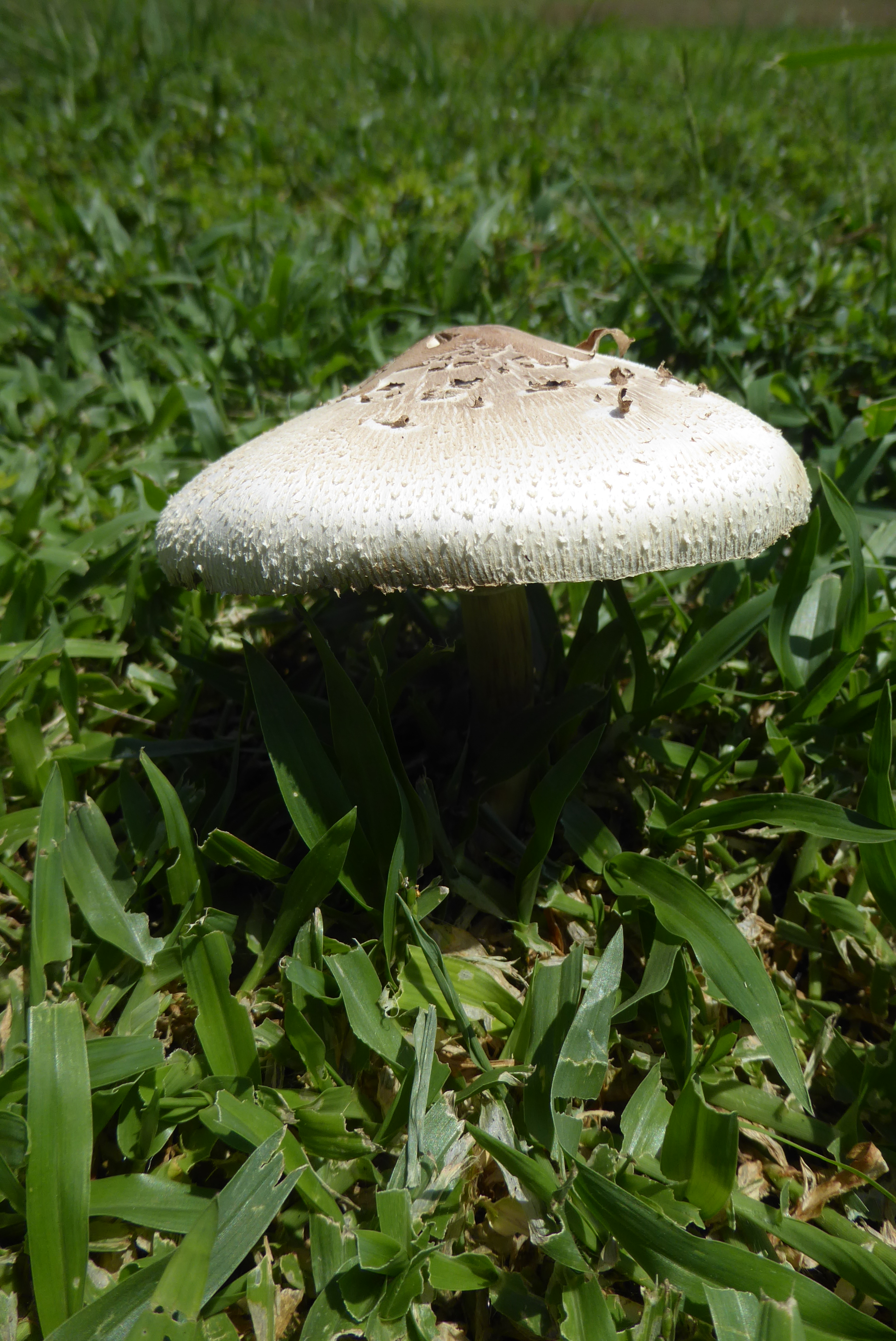 Edith Wolfson Park